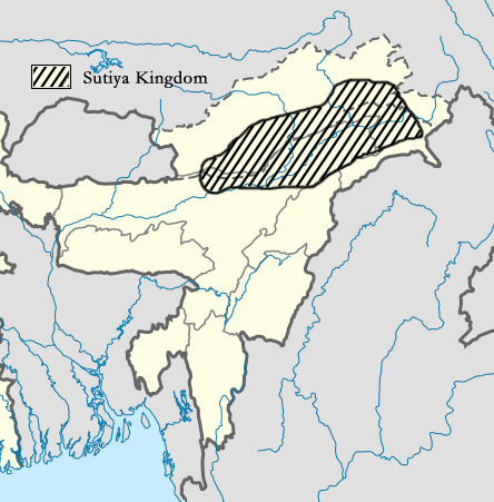 Map showing the Sutiya kingdom during the reign of King Gaurinarayan.